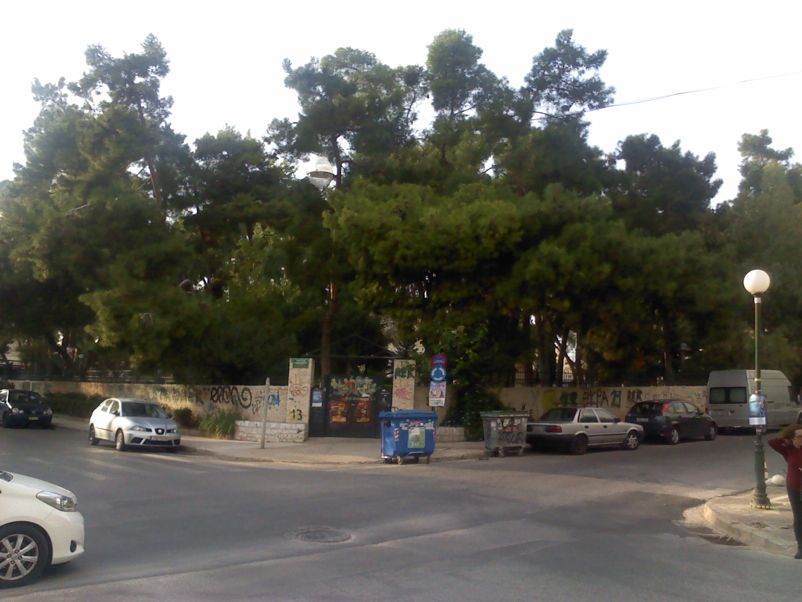 Square Panaitoliou Alsoupoli